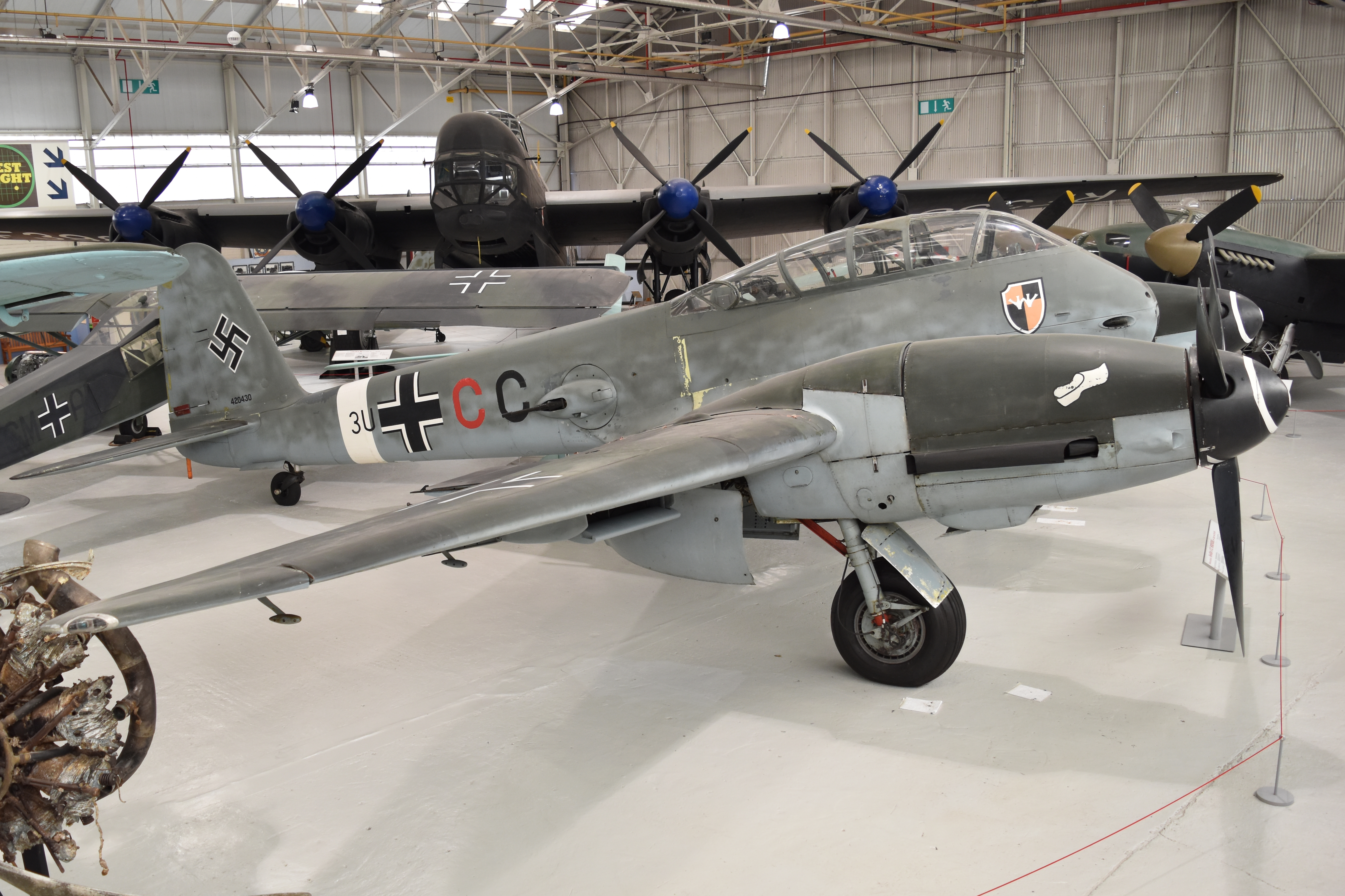 c/n 420430 Built 1943 and served with 2 Staffel, I/Zerstorer Geschwader 26 (ZG26). At the end of the war she was surrendered by German forces at Vaerlose in Denmark. She was flown to RAE Farnborough for evaluation, arriving in October 1945. By May 1946 she had been selected for preservation and was placed in store, arriving at Cosford in early 1960. After making occasional static appearances, such as at Battle of Britain open days, she was moved to the collection at RAF St Athan in 1985. There, she was brought up to ground running condition but in December 1989 she came back to Cosford and has remained here, and silent, ever since. One of only two surviving examples of the type, she is currently on display in the ‘War in the Air’ hangar. RAF Museum, Cosford, Shropshire, UK. 9th June 2018